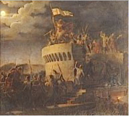 Tancred of Hauteville